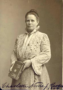 Photograph of Charlotte Norrie, Danish nurse and women's rights advocate (1855-1940).